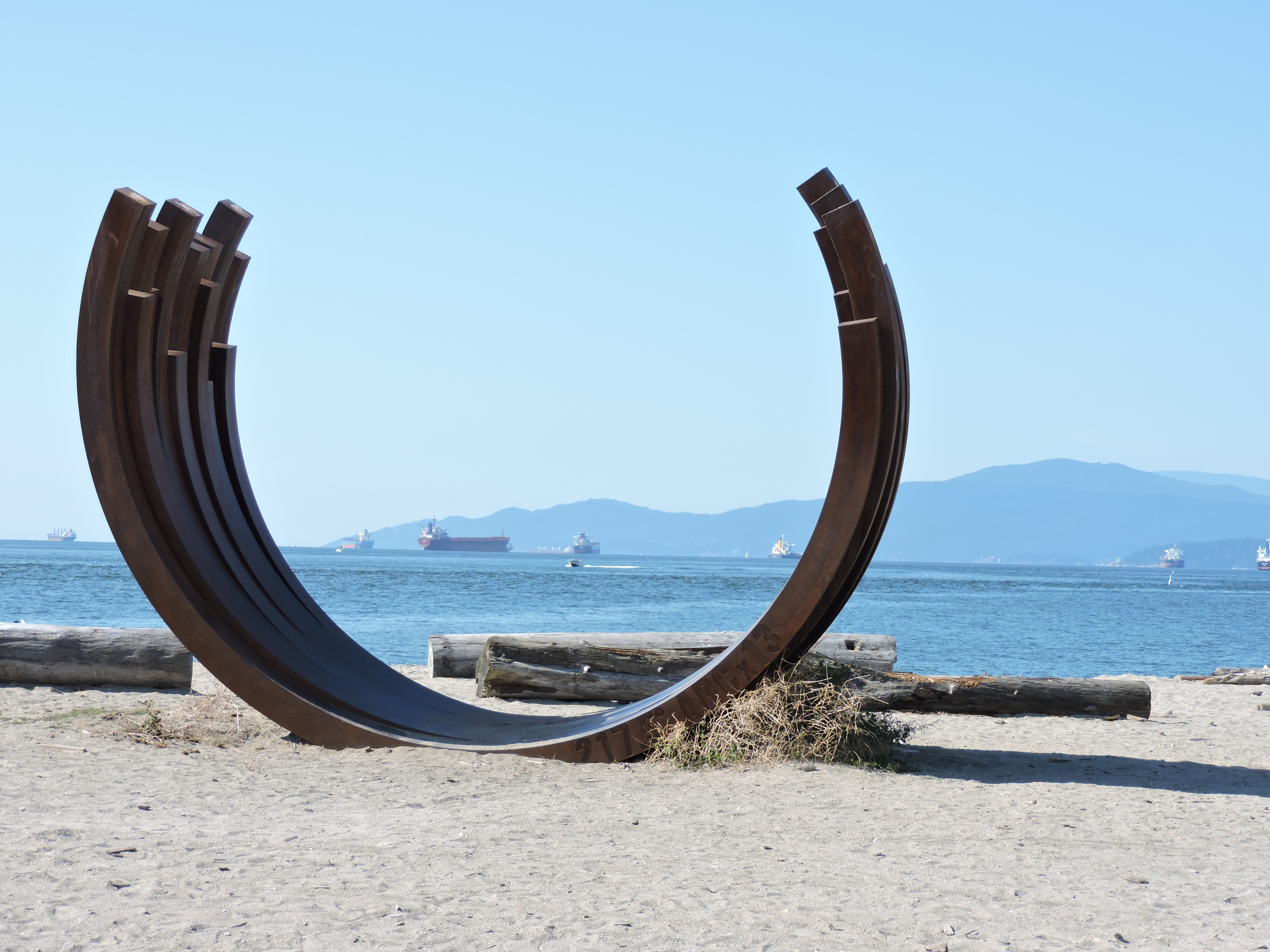 A legacy of Vancouver International Sculpture Biennale by French conceptual artist Bernar Venet.